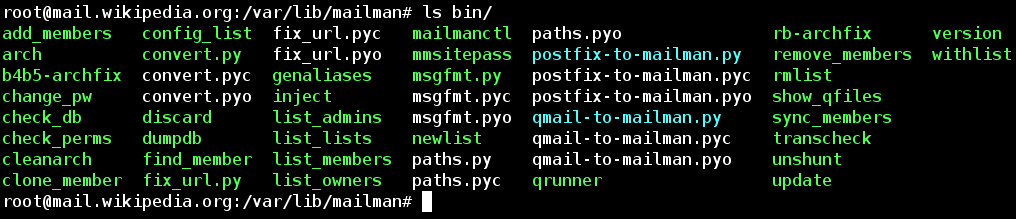 Screenshot of a command-line interface listing files in mailman